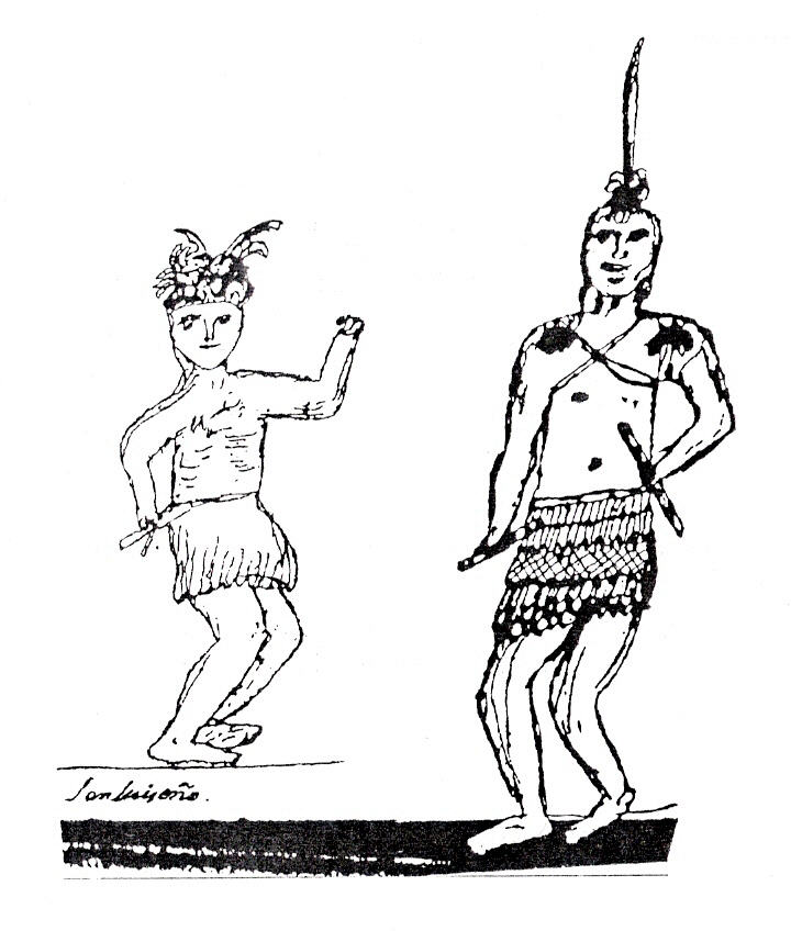 Pablo Tac, a Luiseno who lived at Mission San Luis Rey in the 1820s and 1830s, penned this drawing depicting two young men wearing skirts of twine and feathers with feather decorations on their heads, rattles in their hands, and (perhaps) painted decorations on their bodies. Credits Scanned from Mission San Juan Capistrano: A Pocket History and Tour Guide p. 5.